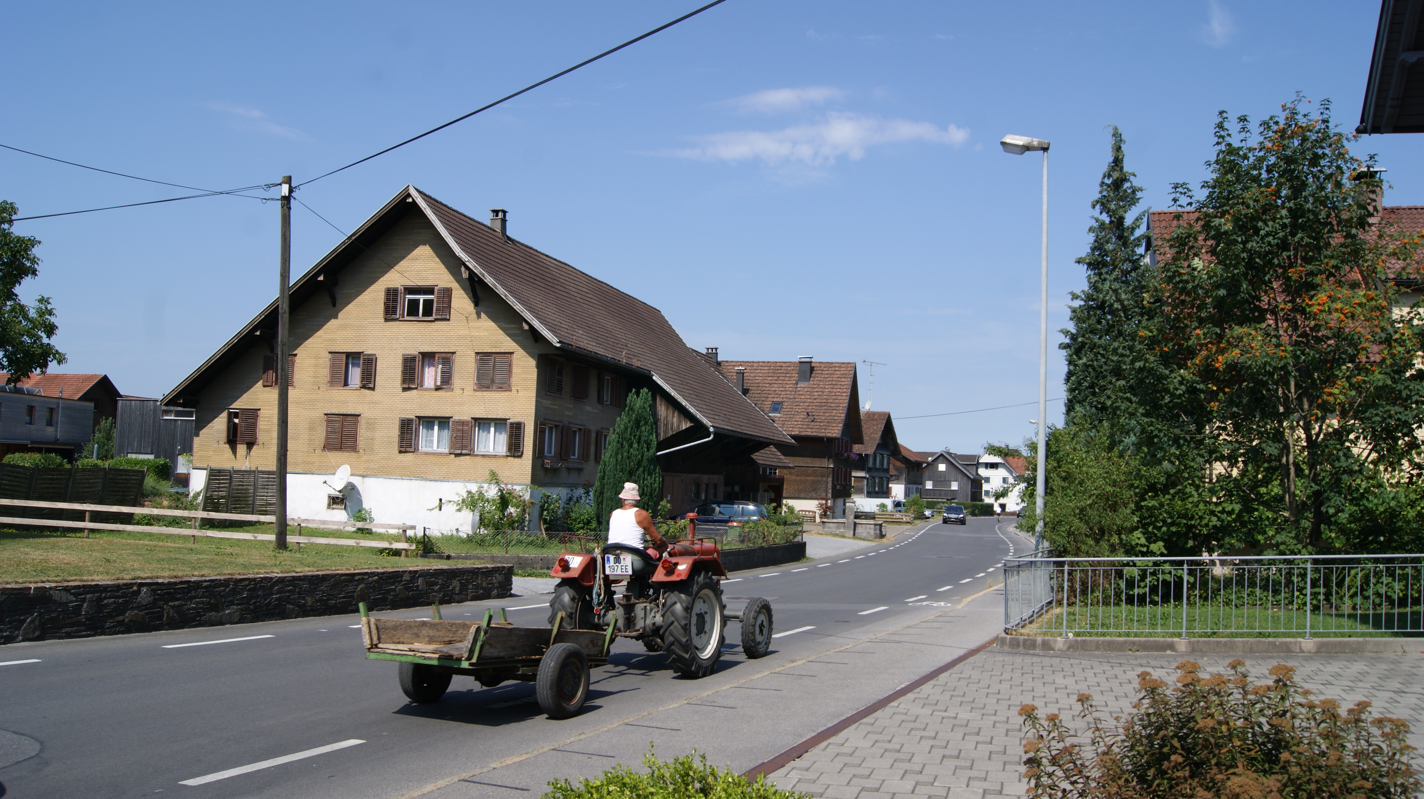 South-eastern end of the "Hintere Achmuehlerstraße" in Dornbirn, Vorarlberg, Austria.